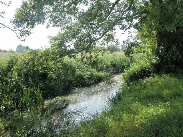 Brook in Oxfordshire. The Sor Brook marks the southern boundary of Bo-peep Farm and Caravan Site.